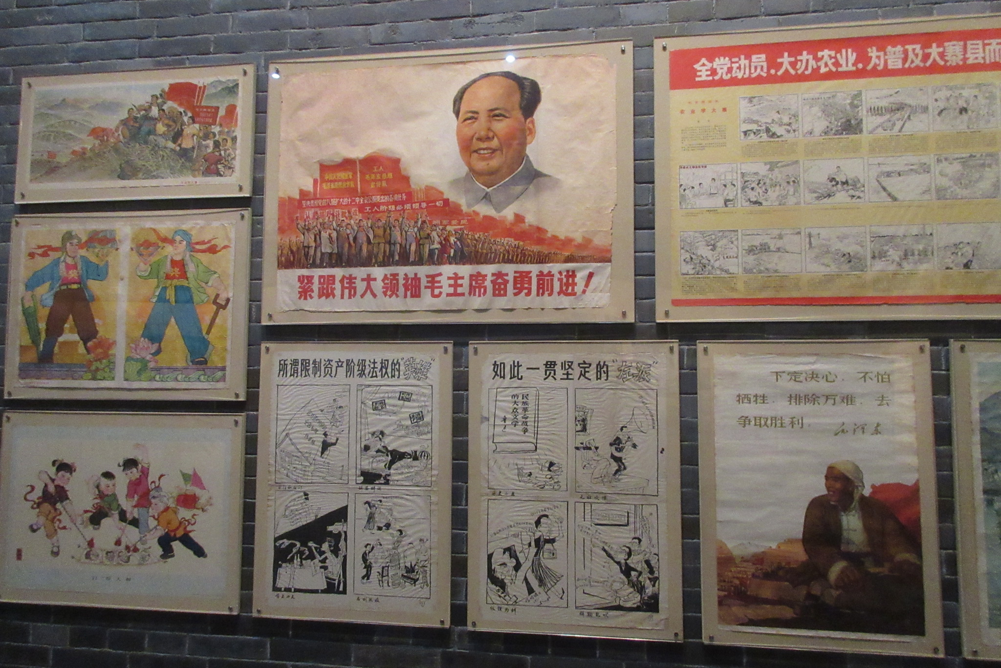 SZ 深圳博物館 Shenzhen Museum 深圳改革開放前歷史展廳 Before Reform and Opening-up History Exhibition Hall 文革時代紅色思想宣傳海布 political posters